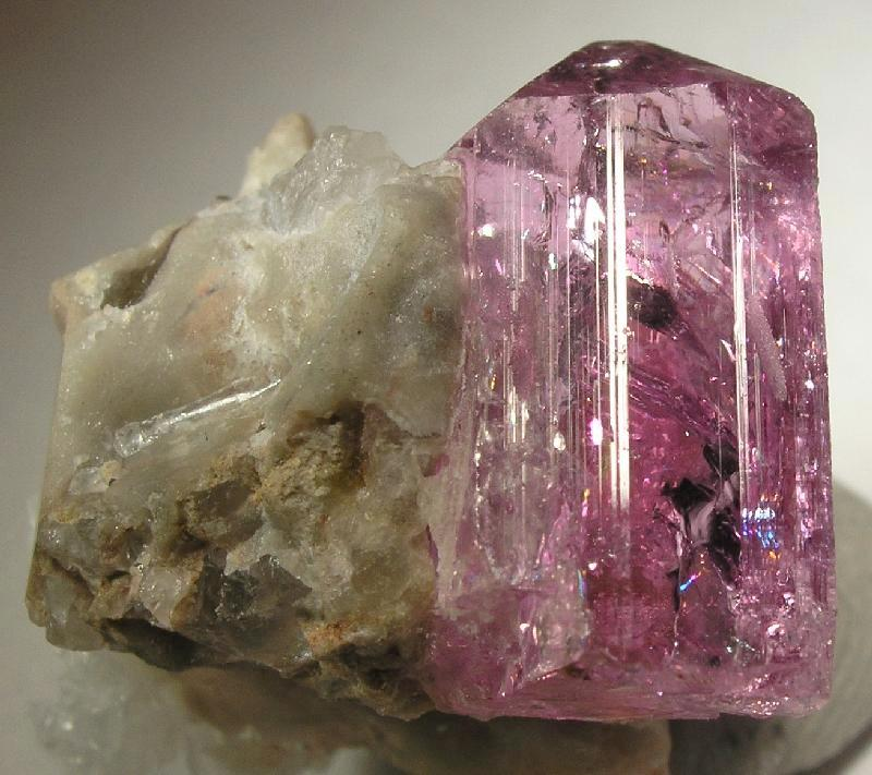 Topaz Locality: Katlang, Mardan District, North-West Frontier Province, Pakistan (Locality at ) This is really quite an amazing Purple Topaz thumbnail from the famous and rather small despoit in Katlang which has produced the only topaz of such color in the Himalayas. They are extremely rare, and good aesthetic specimens are hard to find...matrix specimens even harder still. The luster is superb, it is gemmy, the color is a beautiful rich purple-lavender hue, and it sits so perfectly on matrix. 2 x 1.8 x 1.6 cm This Photo was Photo of the Day - 20th Oct 2006